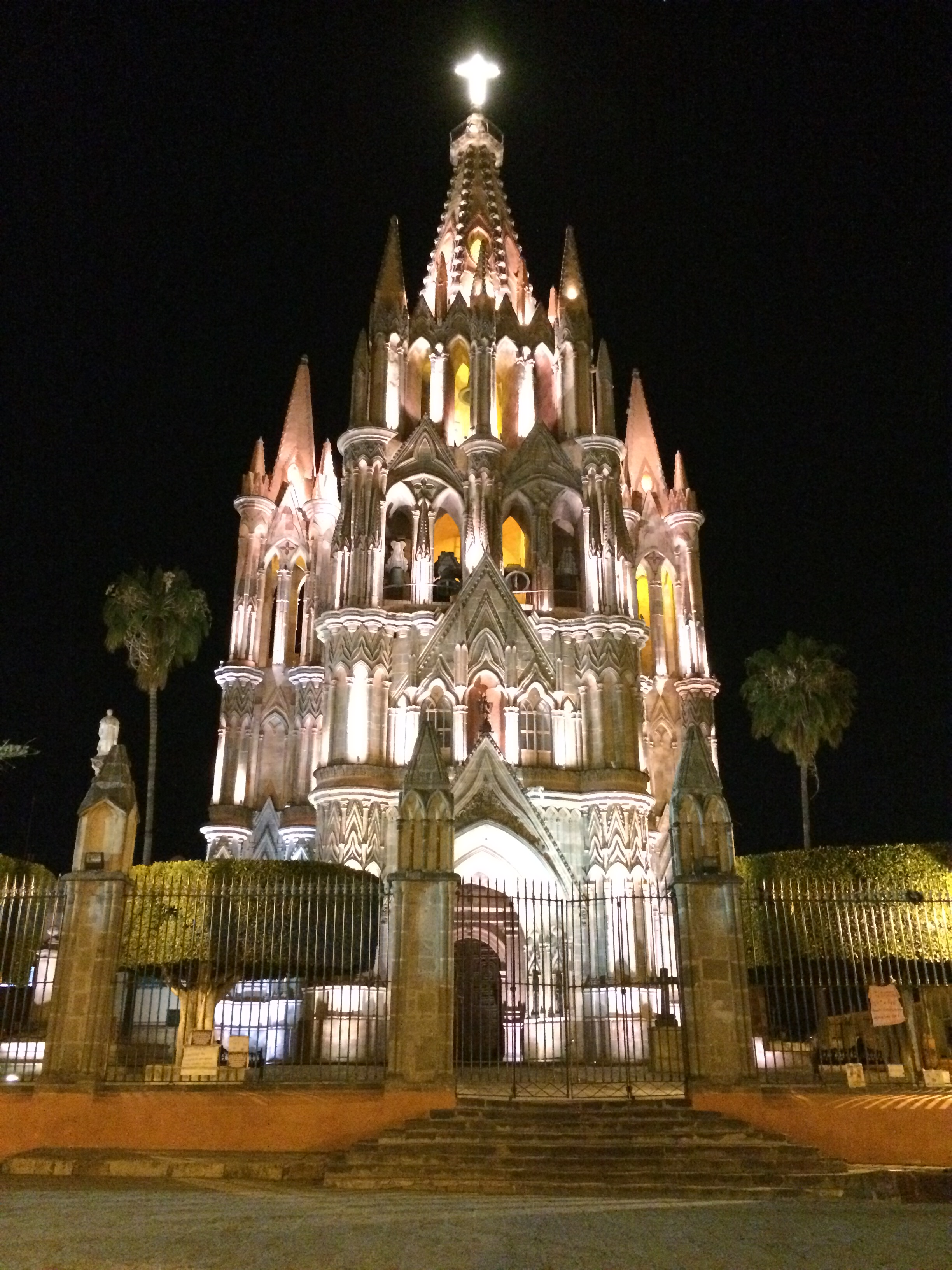 The night time view of the San Miguel Arcángel Parish in San Miguel de Allende, Guanajuato, Mexico. March 2015.